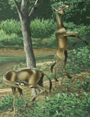 Crop of file in filename